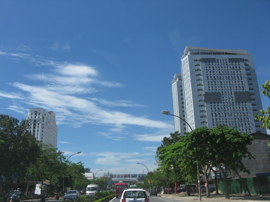 A street in Vinh, Nghe An Province, North Central Vietnam